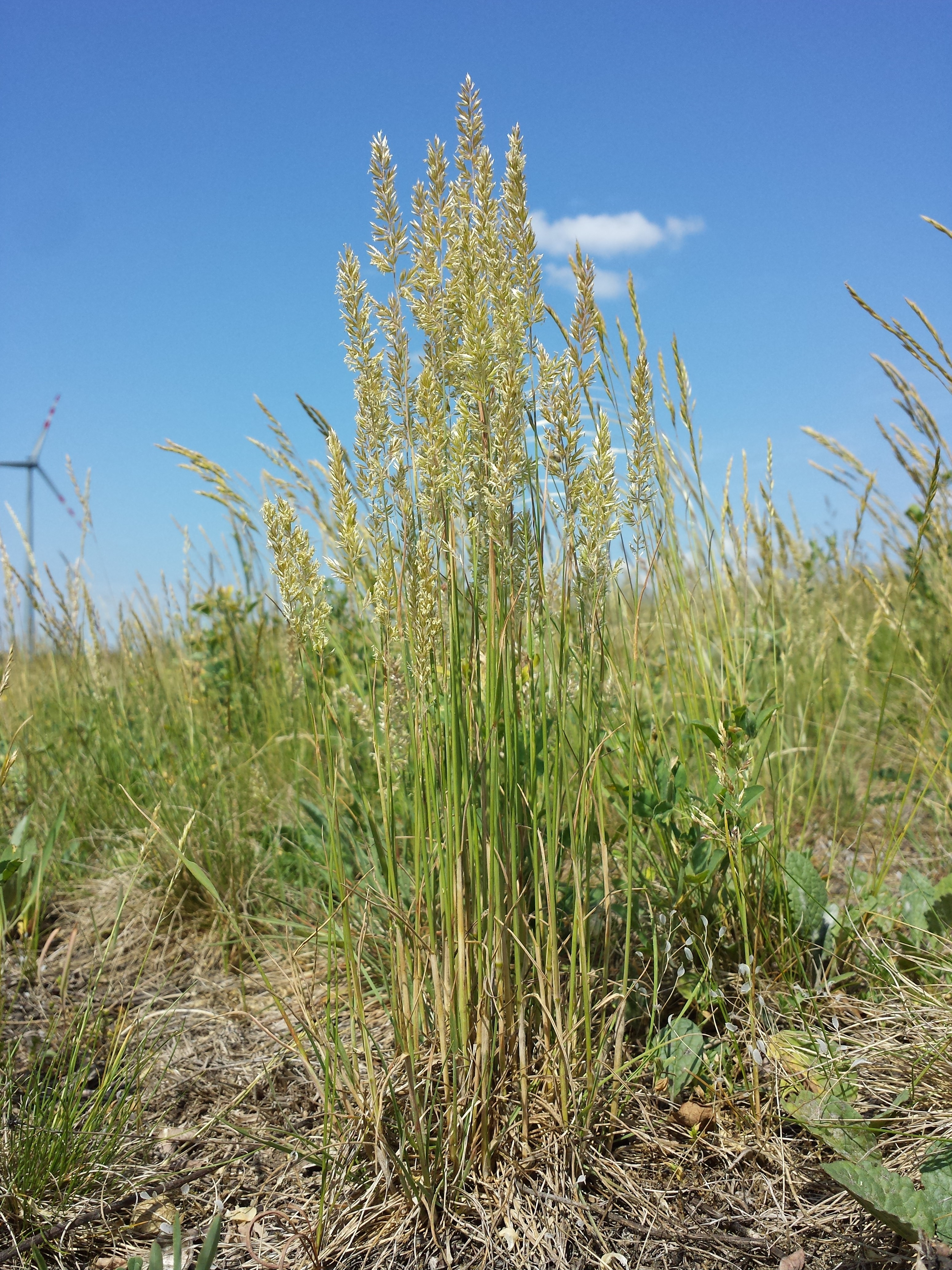 Habitus Taxonym: Koeleria macrantha ss Fischer et al. EfÖLS 2008 ISBN 978-3-85474-187-9 Location: to the Sourth of Ladendorf, district Mistelbach, Lower Austria - ca. 260 m a.s.l. Habitat: dry meadows